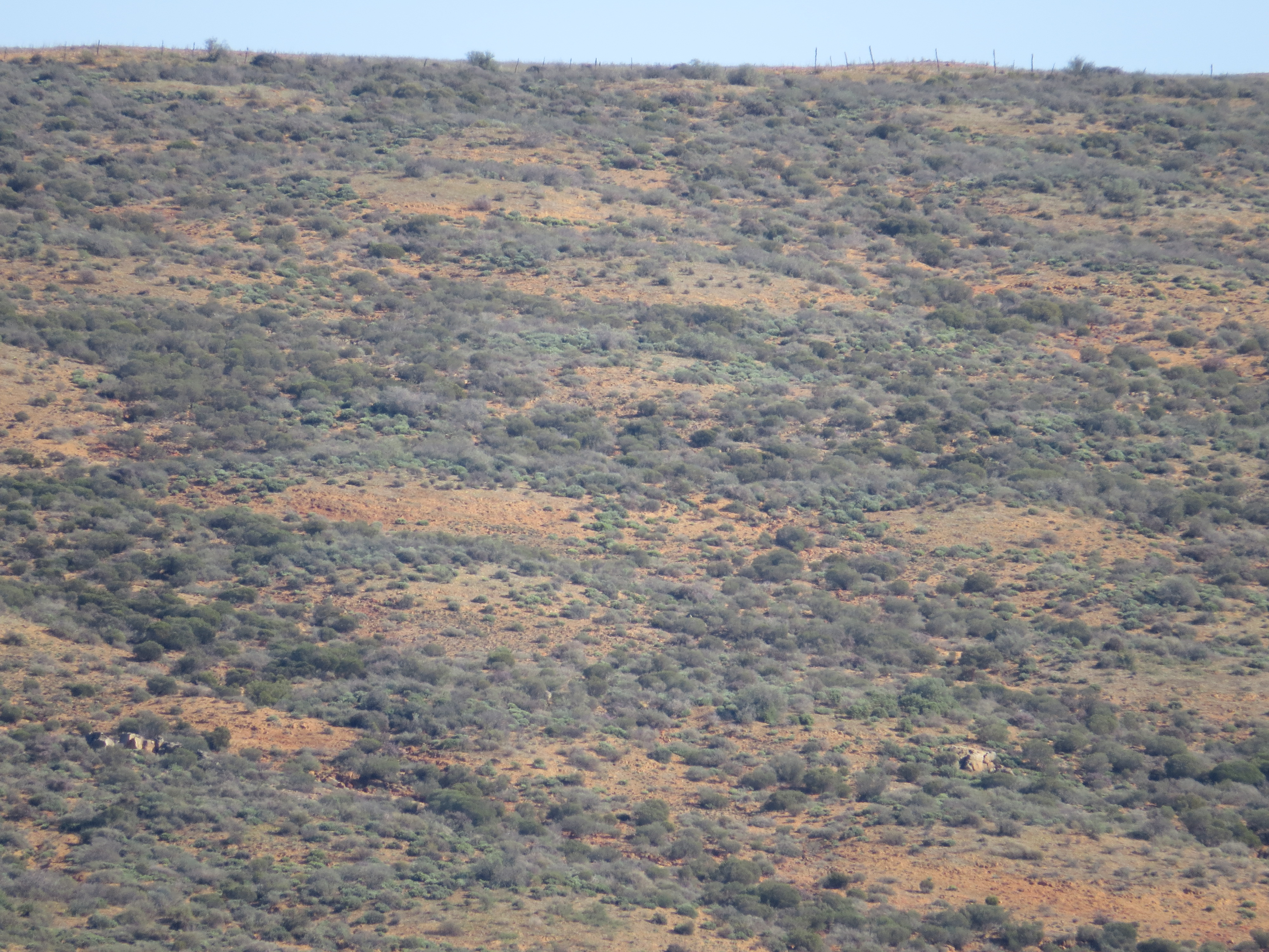 Heuweltjies on a hillside in the North-Western Cape Province of South Africa.